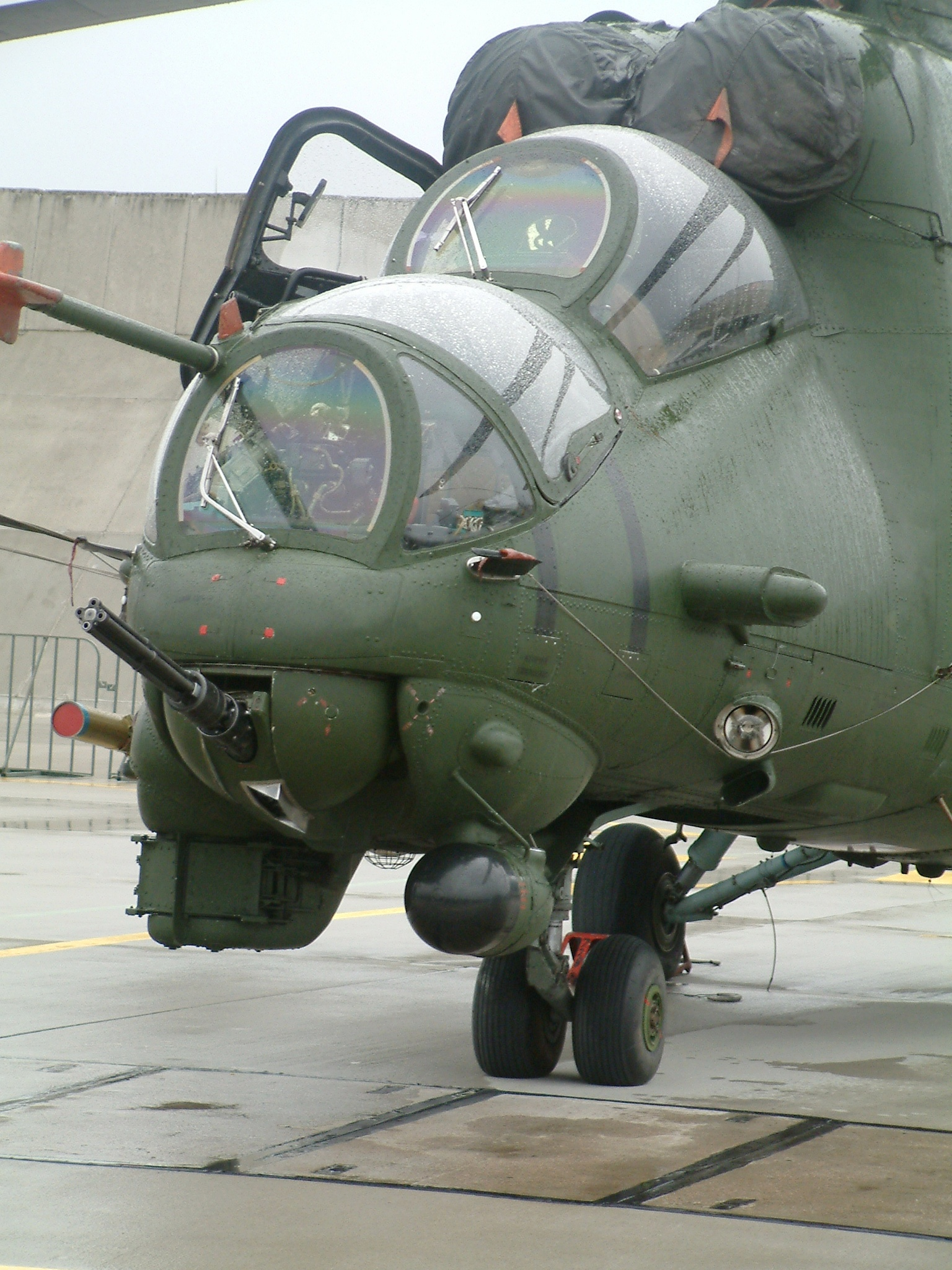 Mi-24W #728 of Polish Land Forces Aviation, 31st. Air Base Poznań-Krzesiny